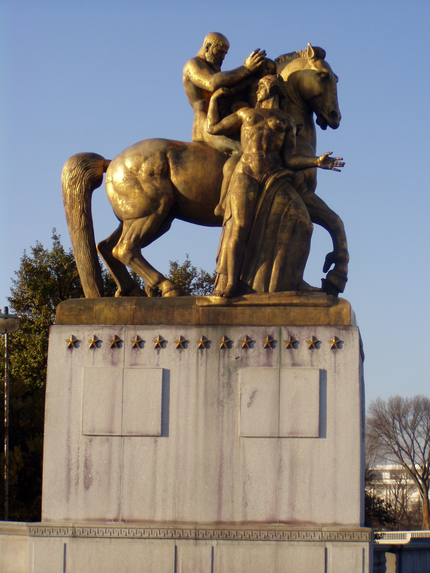 "Sacrifice" sculpture, Arts of War Sculptures on Arlington Memorial Bridge by Leo Friedlander